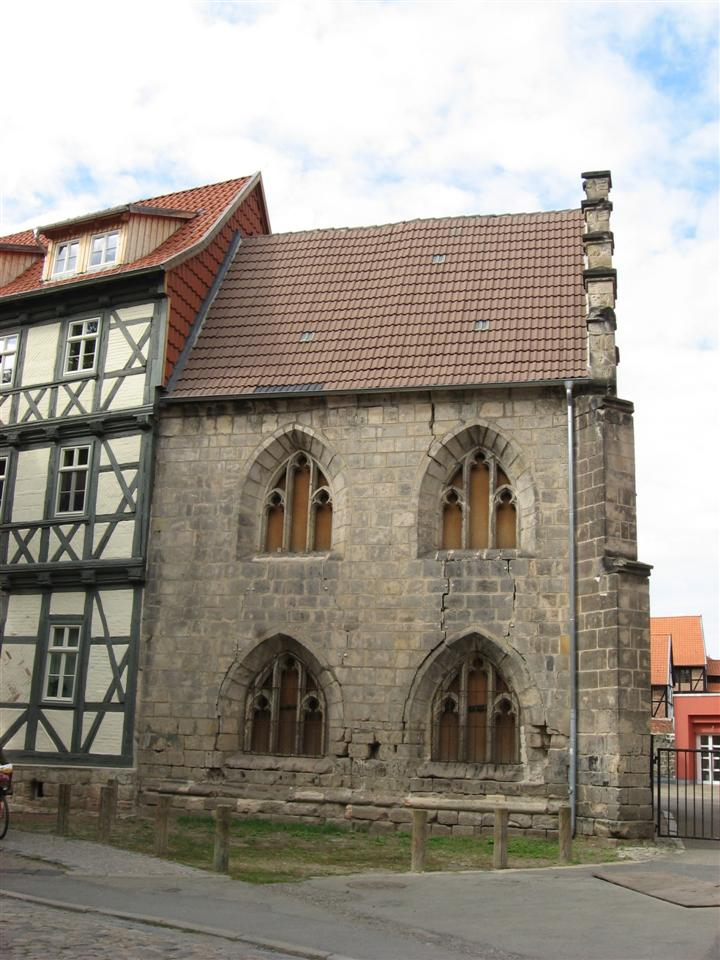 former convent at Quedlinburg